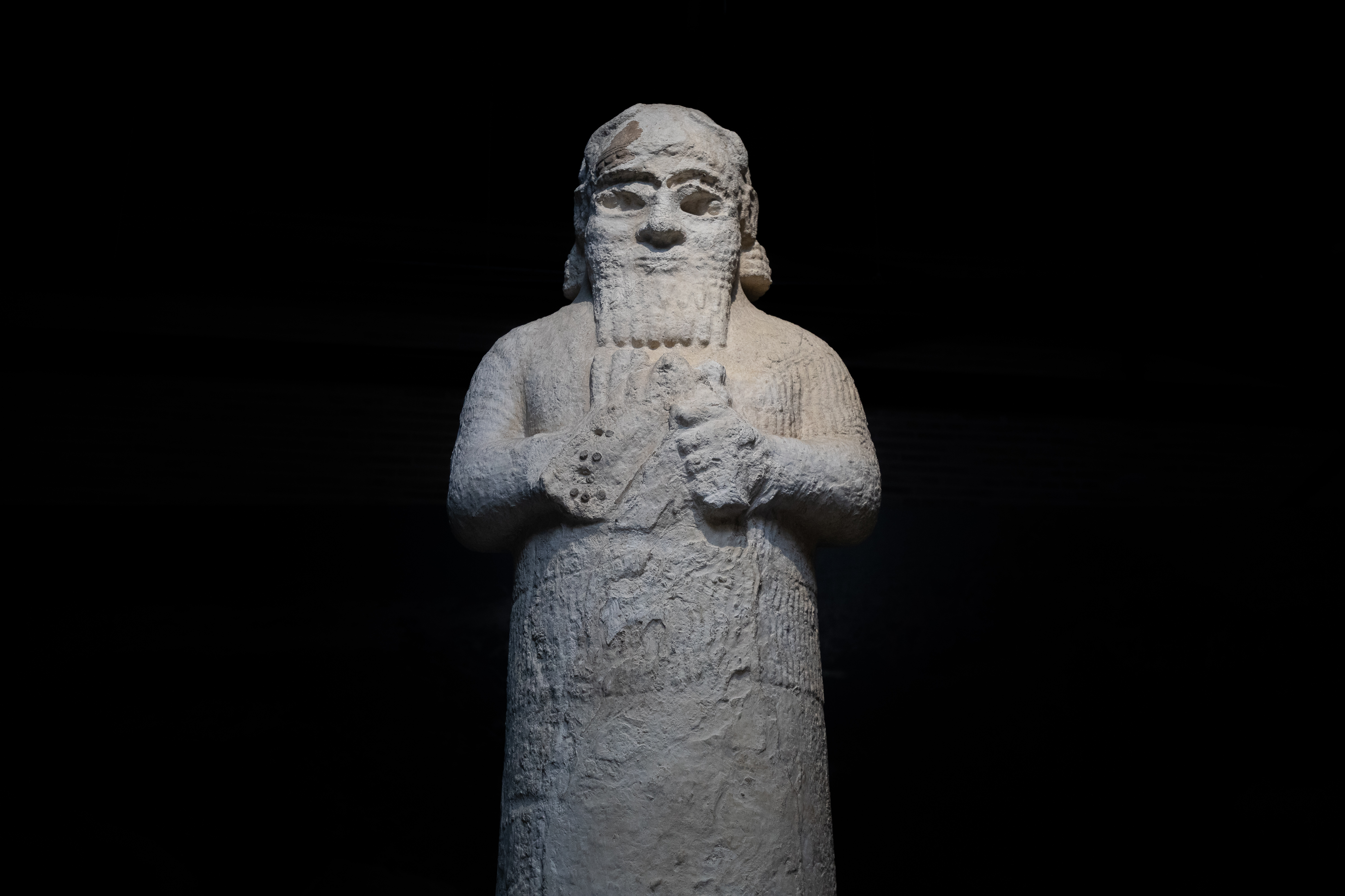 Monumental statue of the Hittite storm god Tarḫunna (or Tarhunda/Tarhunza) in Adana Museum, Turkey.